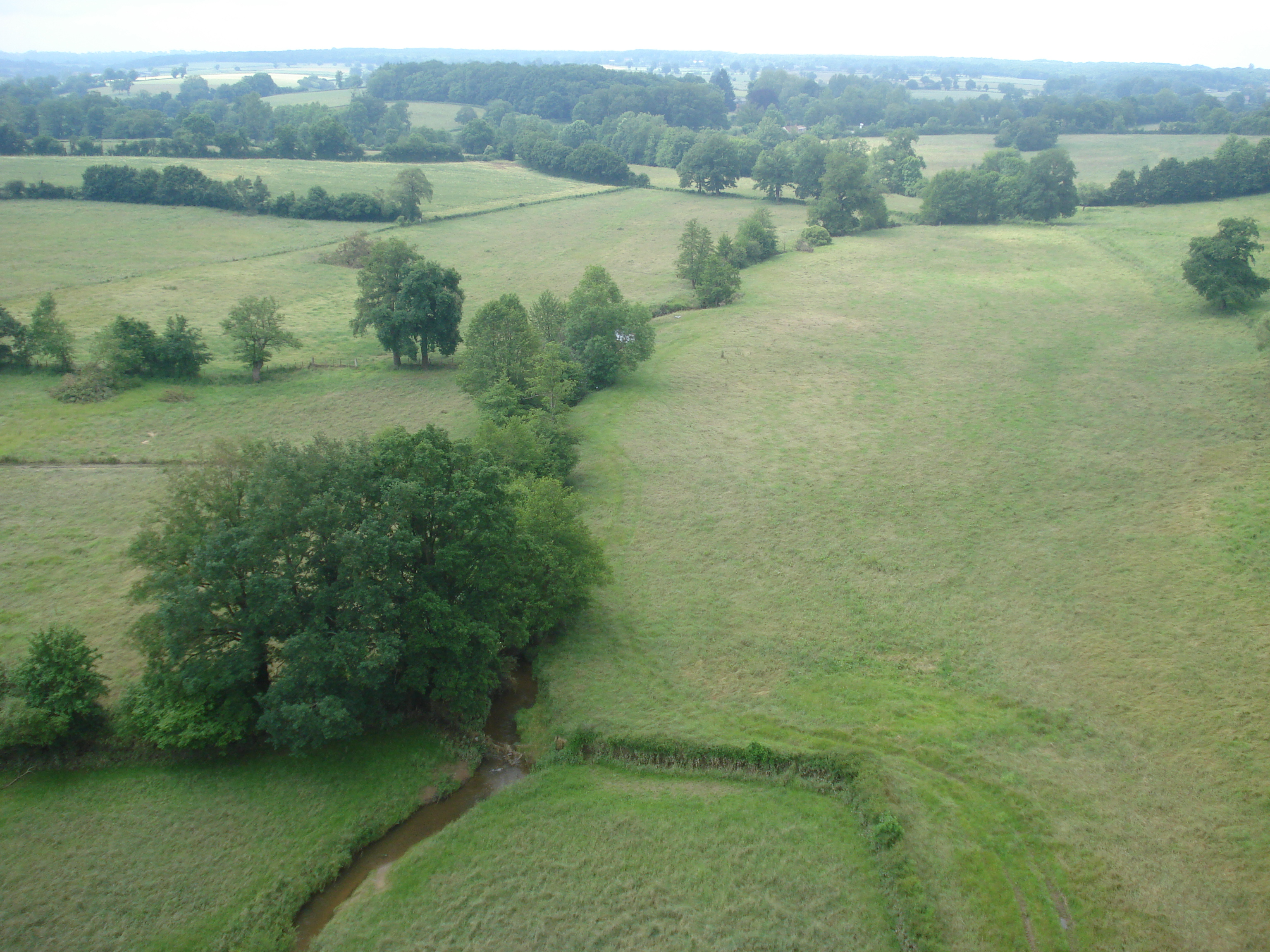 Cluis (Indre, Fr), panorama from de ancien railwaybridge of Auzon